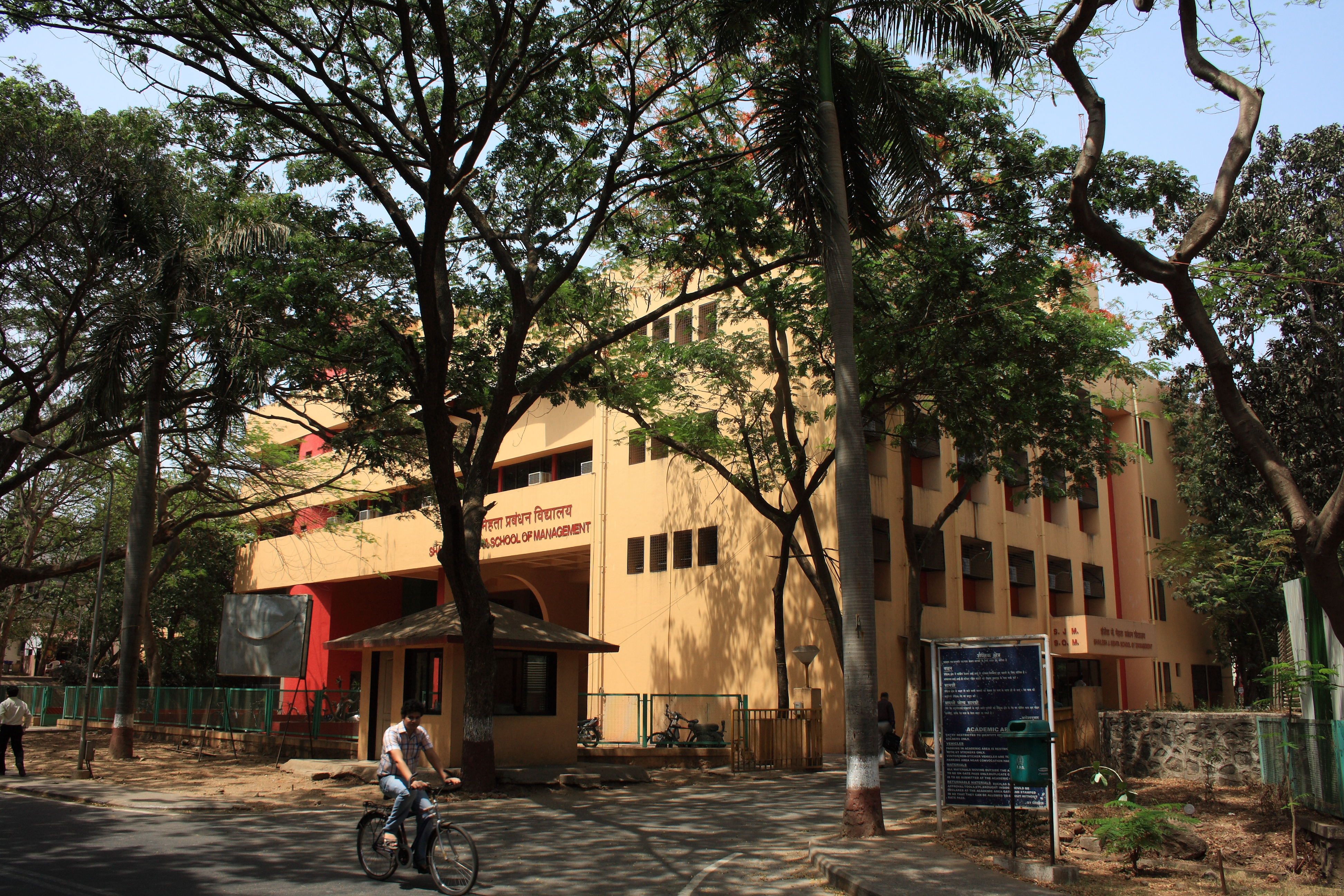 Shailesh J. Mehta School of Management on the Campus of IIT Bombay